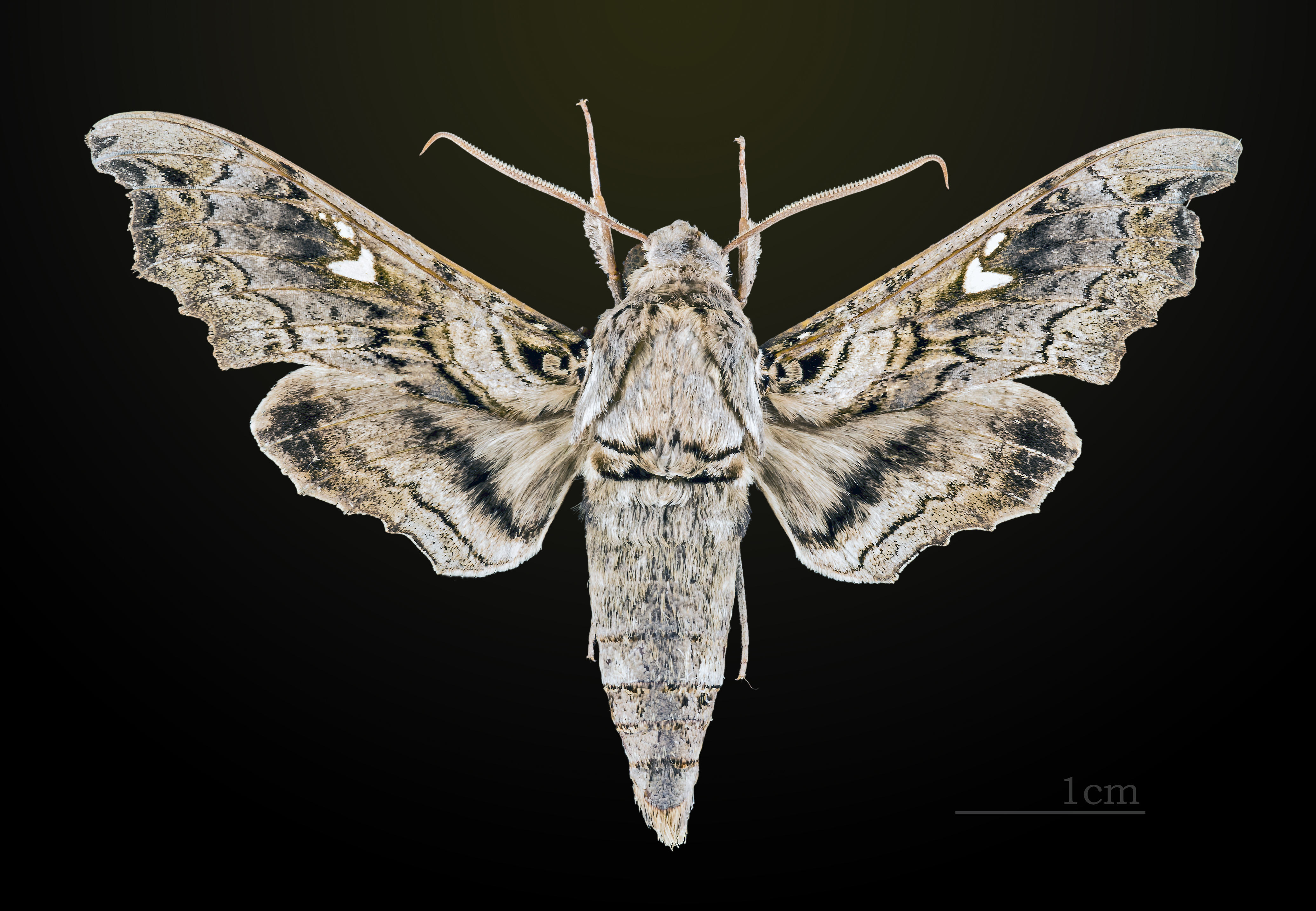 false-windowed sphinx - Dorsal side Collection of the Mathematician Laurent Schwartz